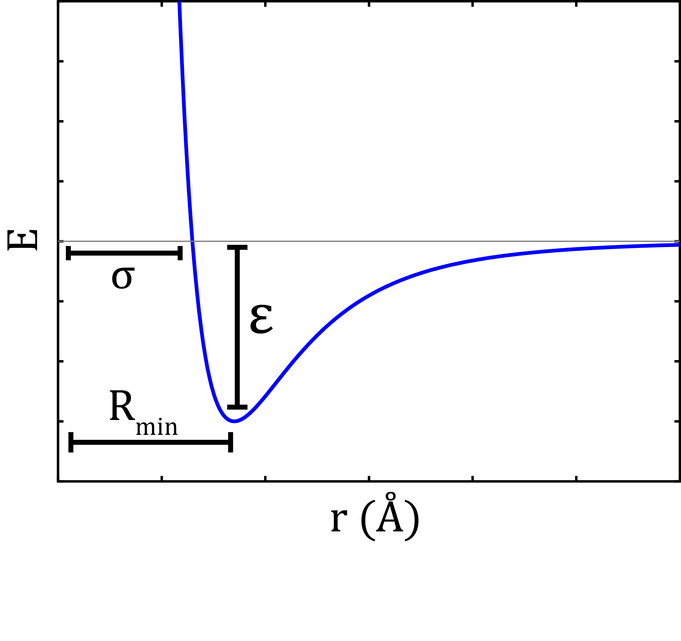 The Lennard-Jones 6-12 potential approximates the intermolecular interactions of two atoms due to Pauli repulsion and London dispersion attraction. The potential is defined in terms of the well-depth ( ϵ {\displaystyle \epsilon } ) and the intercept ( σ {\displaystyle \sigma } ). Other formulations use the radius where the minimum occurs, R m i n {\displaystyle R_{min , instead of σ {\displaystyle \sigma } .